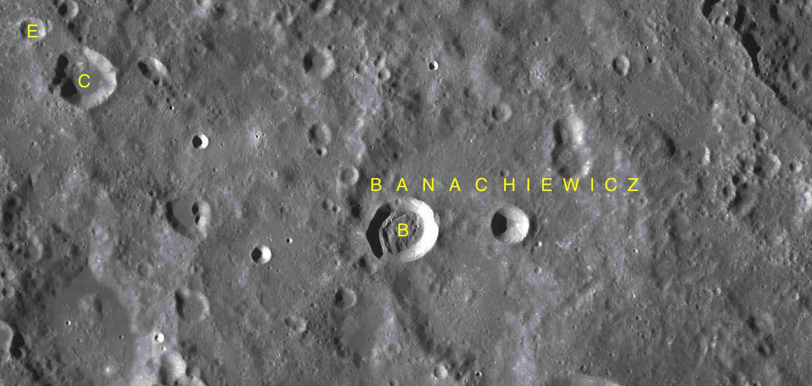 Part of the chart LAC-63 used for the presentation